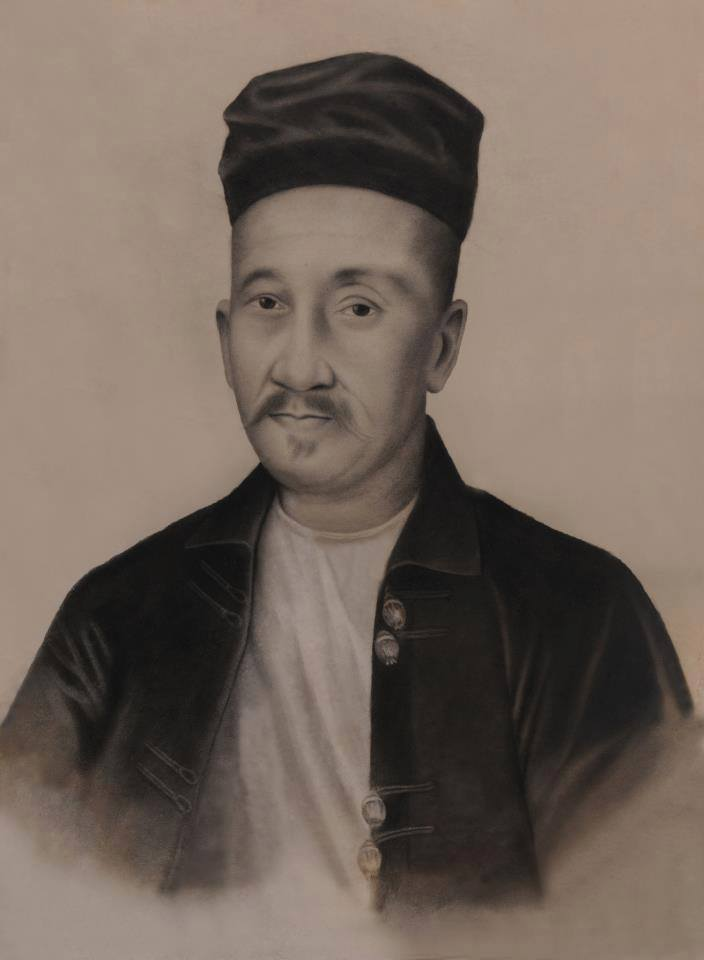 Portrait of Tan Eng Goan, the 1st Majoor der Chinezen of Batavia (now Jakarta)